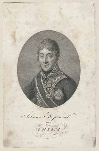 The bavarian general and minister Johann Nepomuk von Triva (1755-1828)